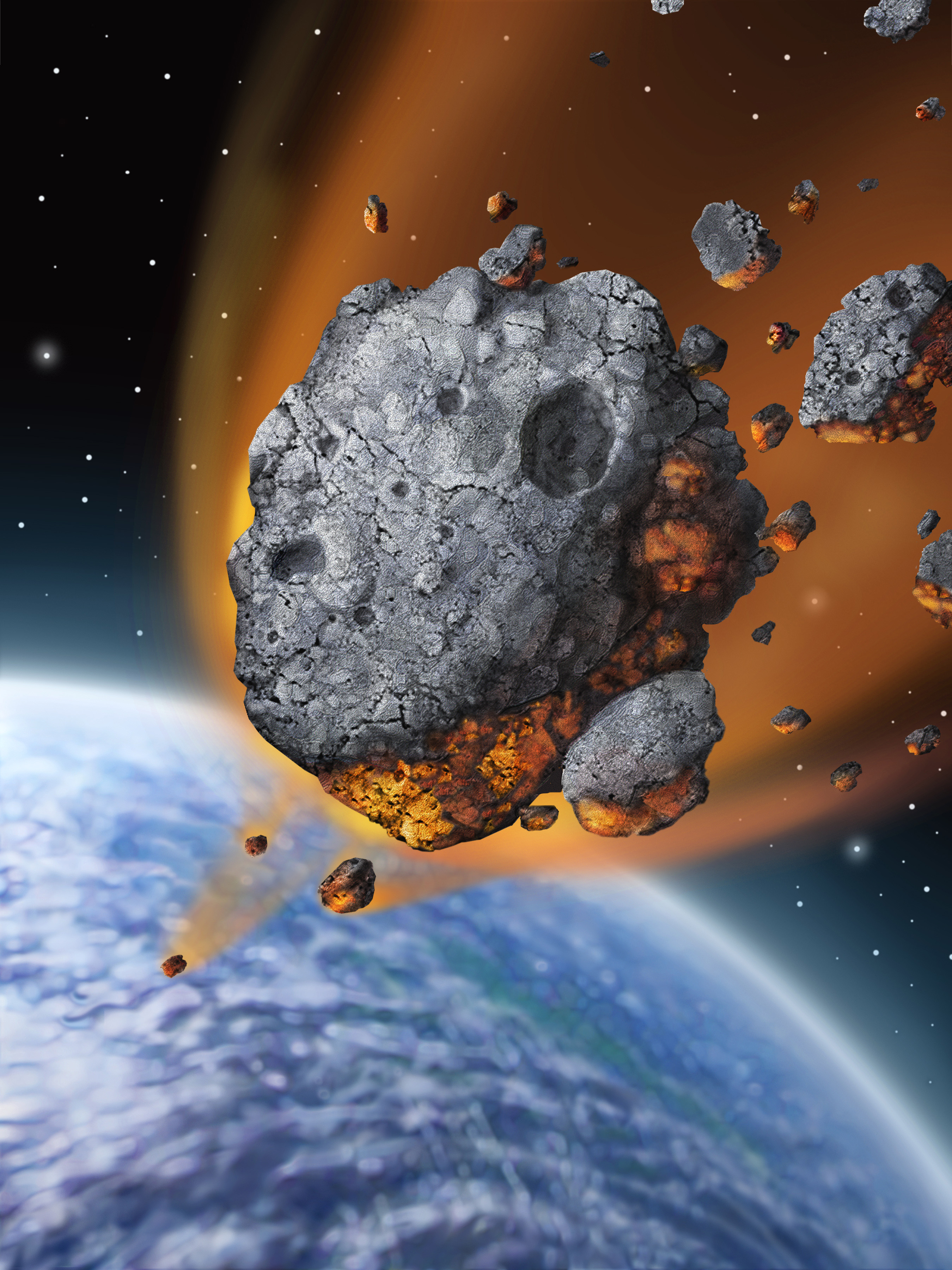 Drawing of an asteroid falling to Earth.